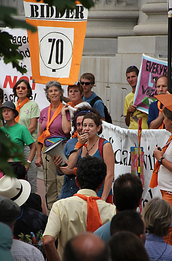 Protesters from Peaceful Uprising at Tim DeChristopher's sentencing July 26, 2011 Salt Lake City Utah USA